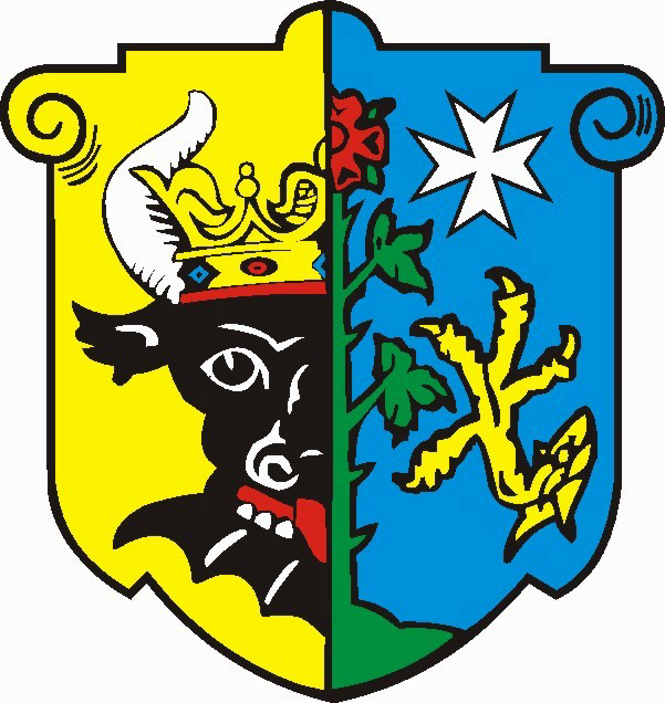 Coat of arms of Ludwigslust